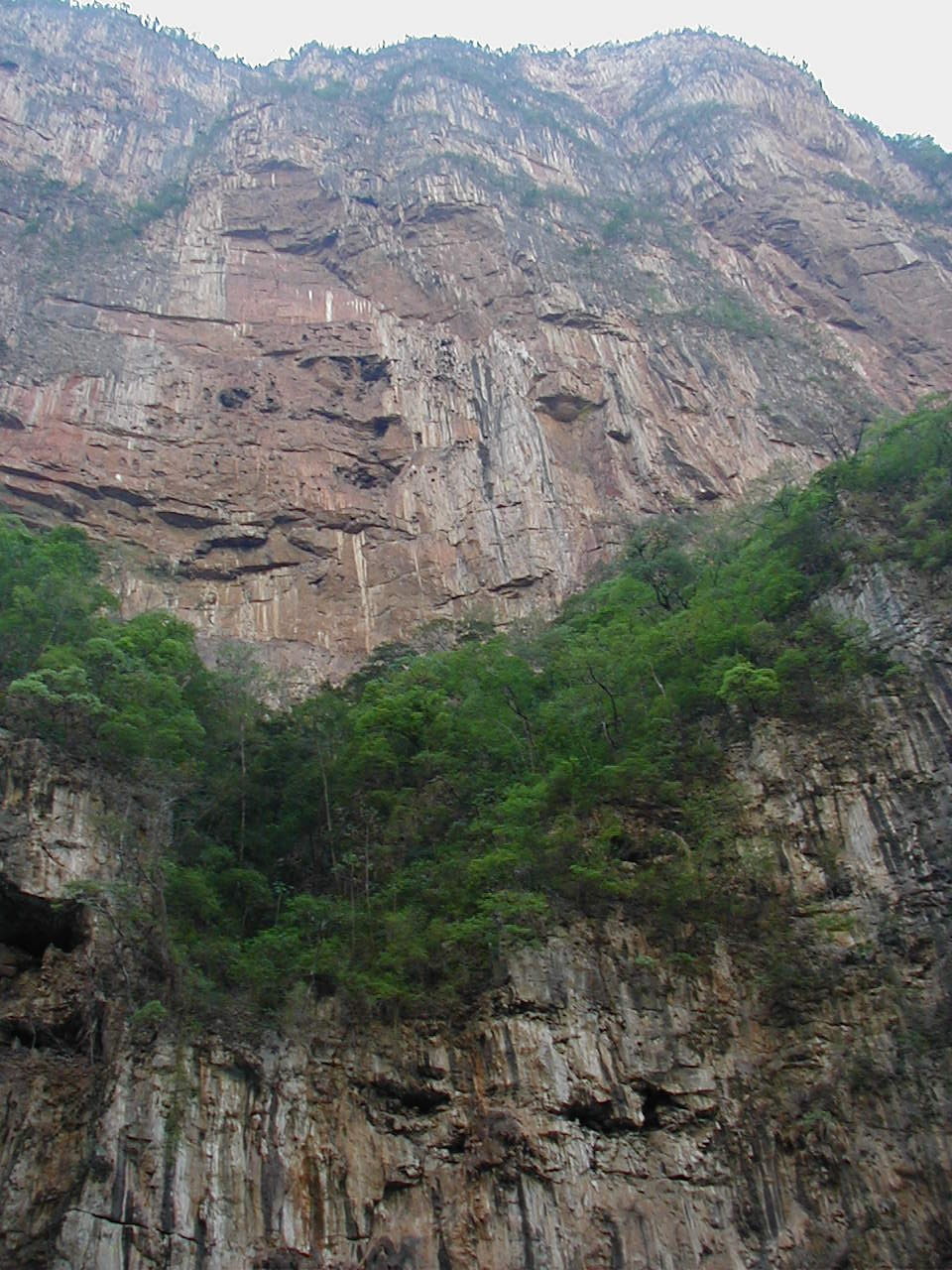 Wall of Sumidero Canyon — in the state of Chiapas, Southwestern Mexico. The Grijalva River runs through the canyon, which is near Chiapa de Corzo and Tuxtla Gutierrez.